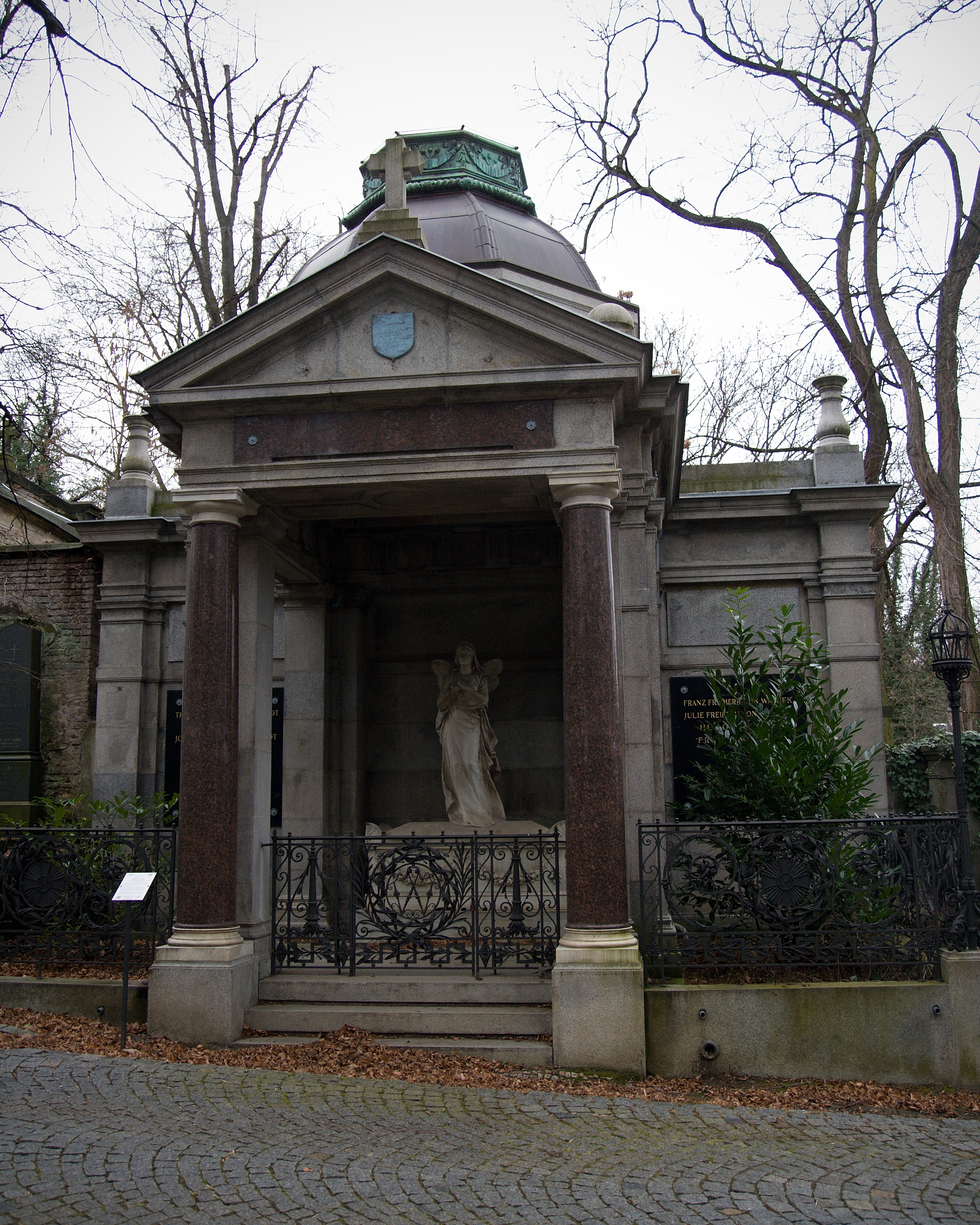 Olšanské hřbitovy Cemetery - Grave of František Waldek Family